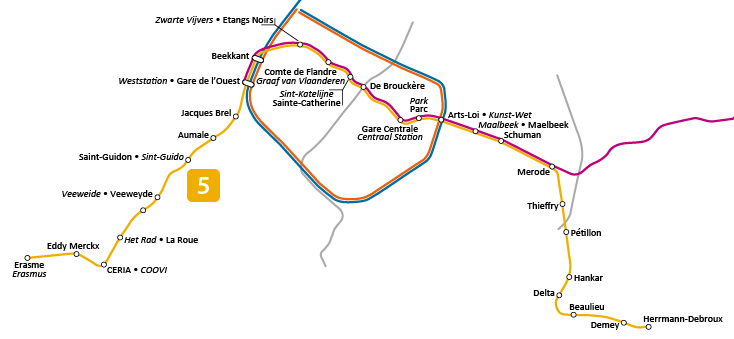 Itinerary map of Brussels metro line 5